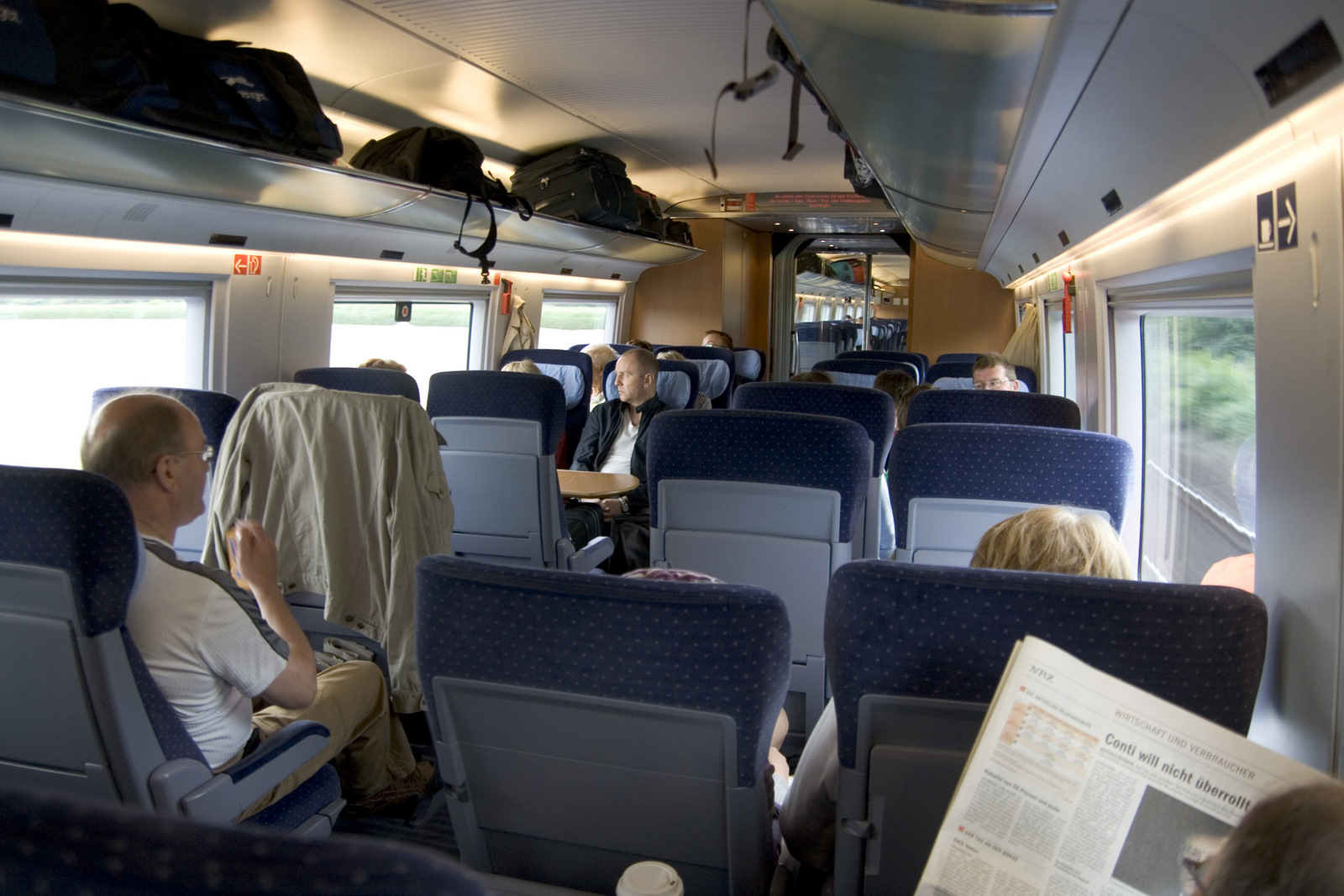 Interior of 2nd class carriage of ICE 3 train